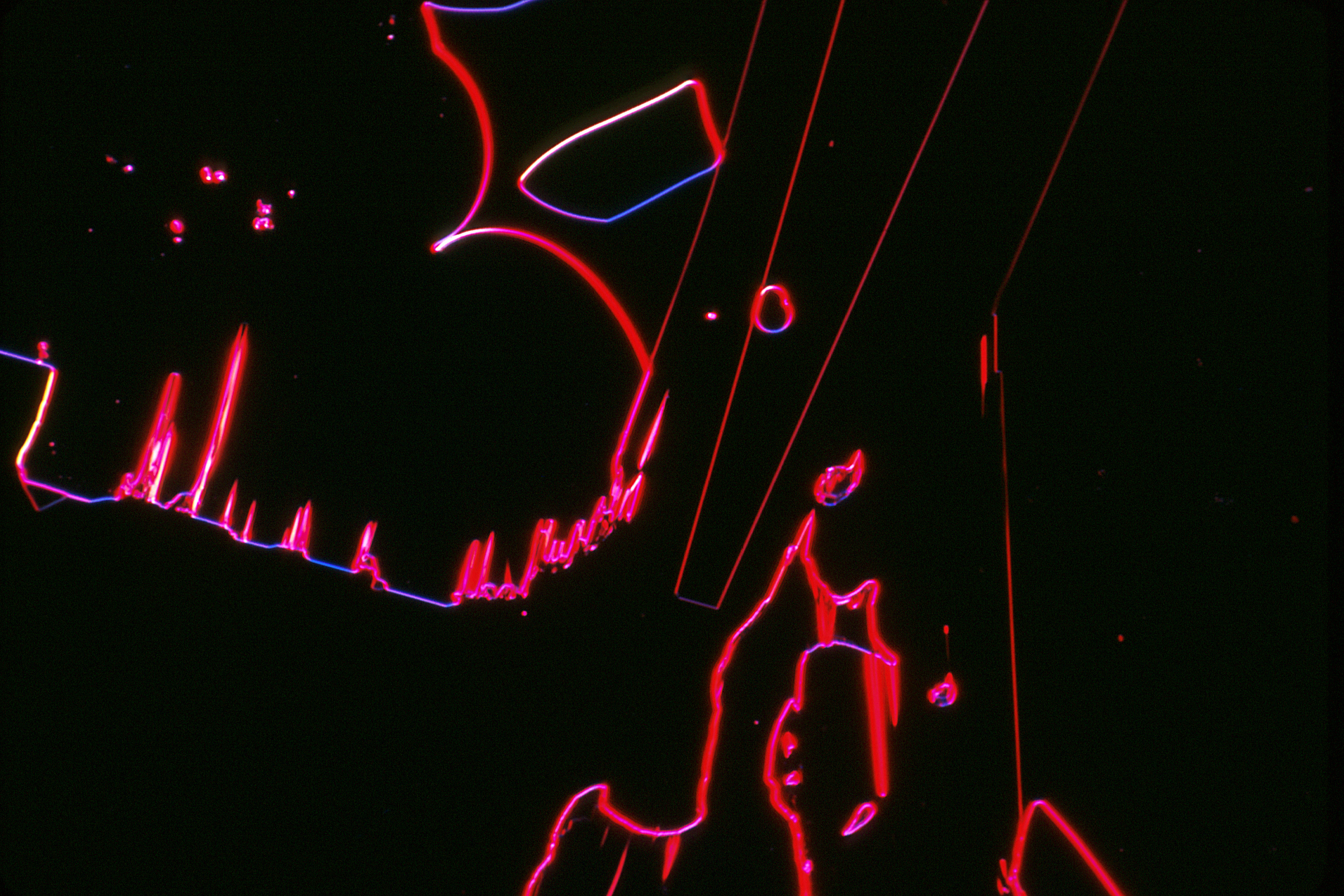 The image shows cisplatin crystals, which is a platinum compound, and used as a chemotherapy drug.